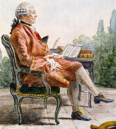 A portrait of Charles Marie de La Condamine (28 January 1701 – 13 February 1774), a French explorer, geographer, and mathematician.